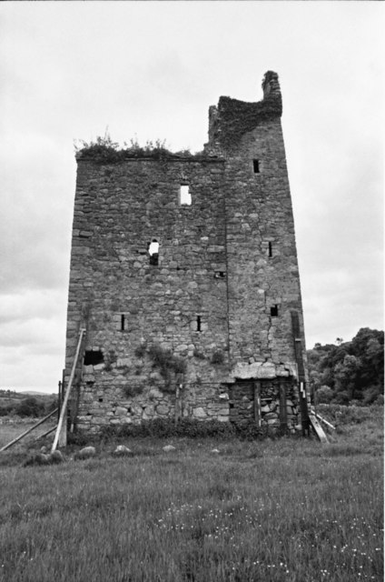 Dysart Castle, Thomastown, Co. Kilkenny. Fifteenth-century four-storey tower house with medieval church adjacent. A house on this site was the childhood home of Bishop George Berkeley (1685-1753) [1].